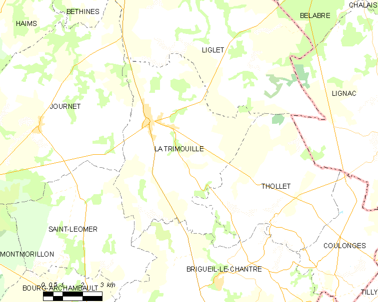 Map of French municipality La Trimouille